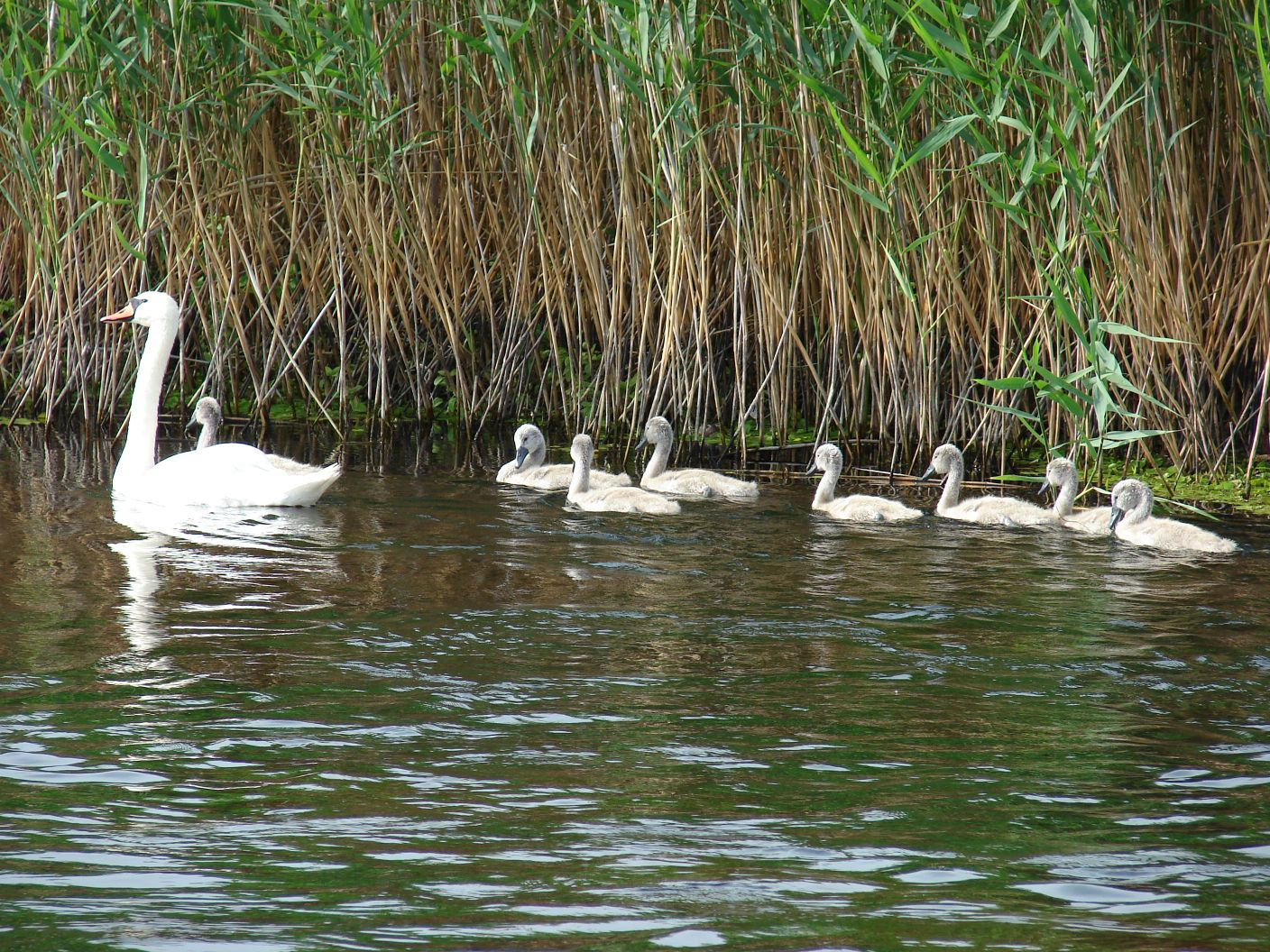 Savala River